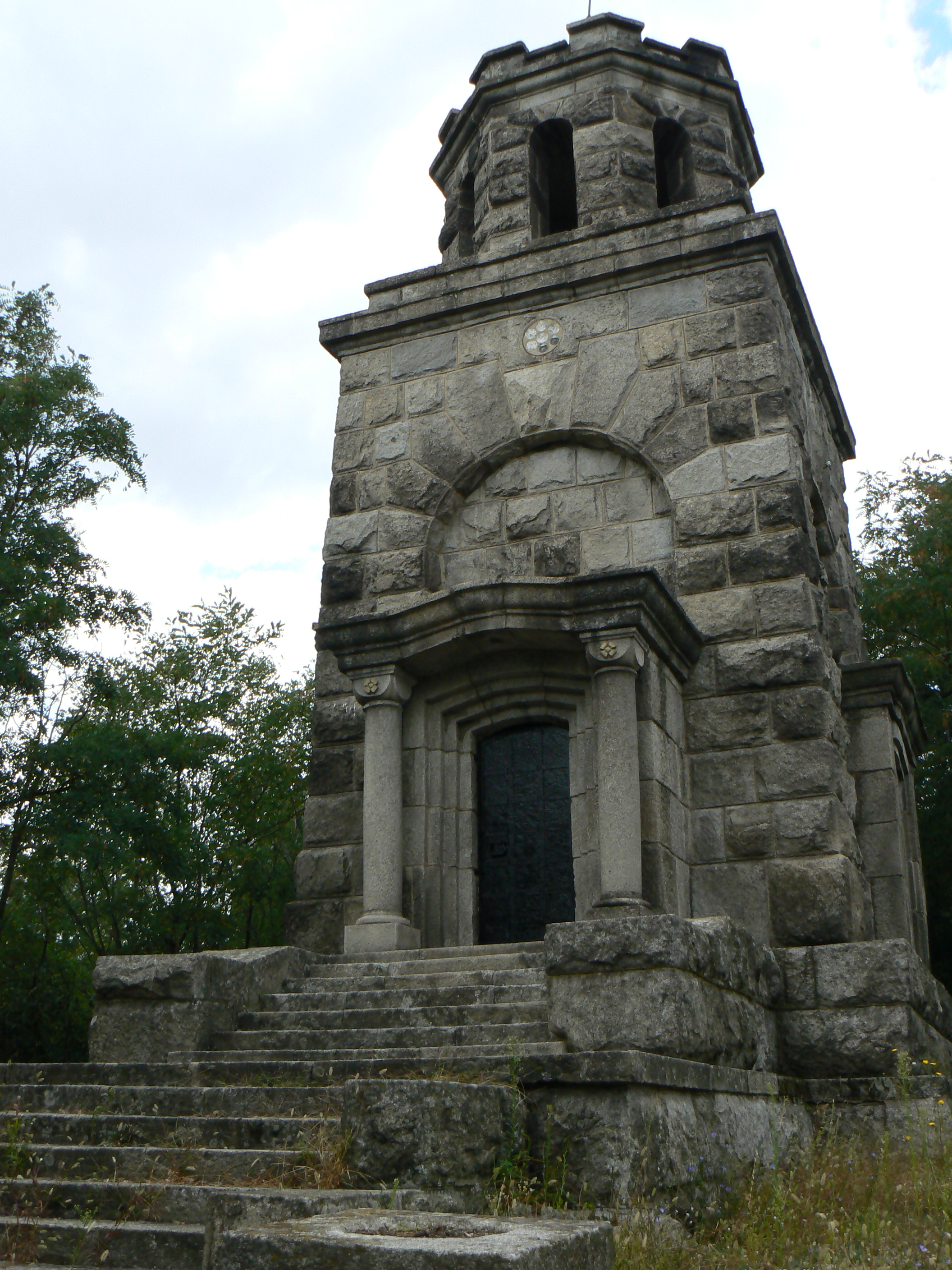 Memorial ossuary of the Bulgarian politician Alexander Stamboliyski, village Slavovitsa, Pazardzhik District, Bulgaria